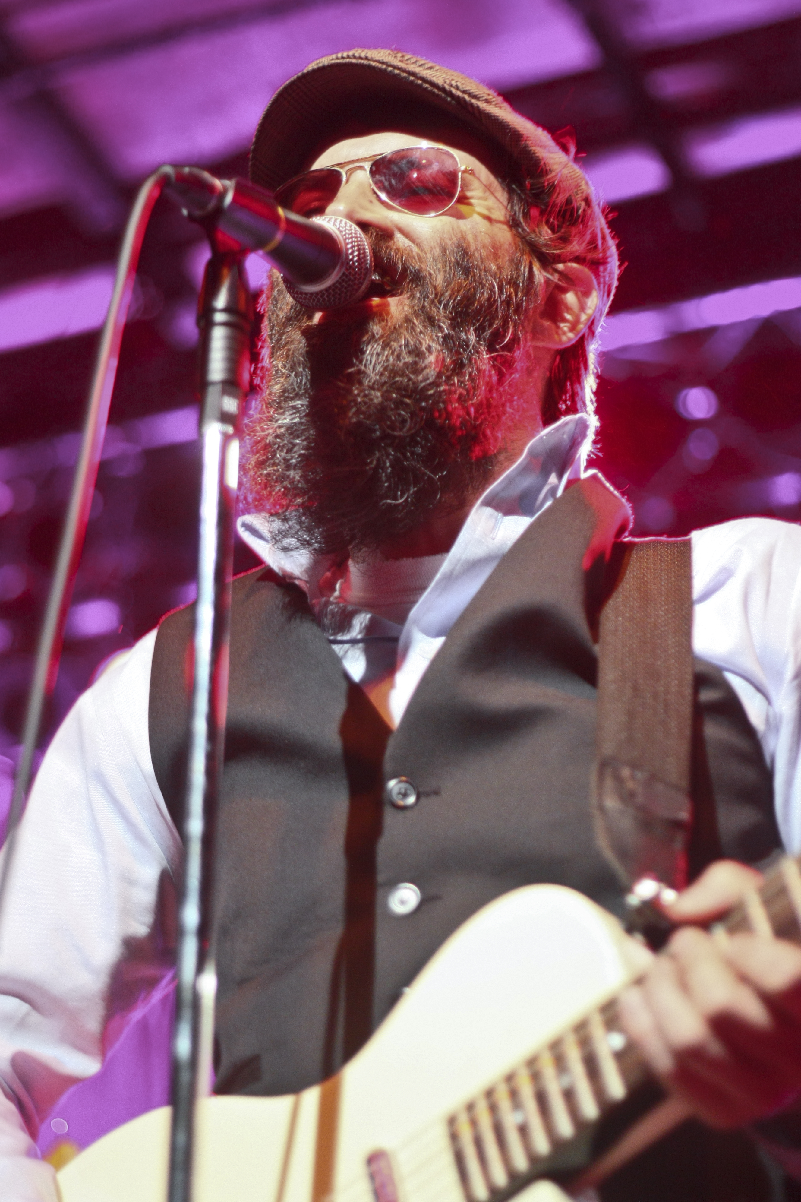 Eels on stage at the republic Salzburg 2011